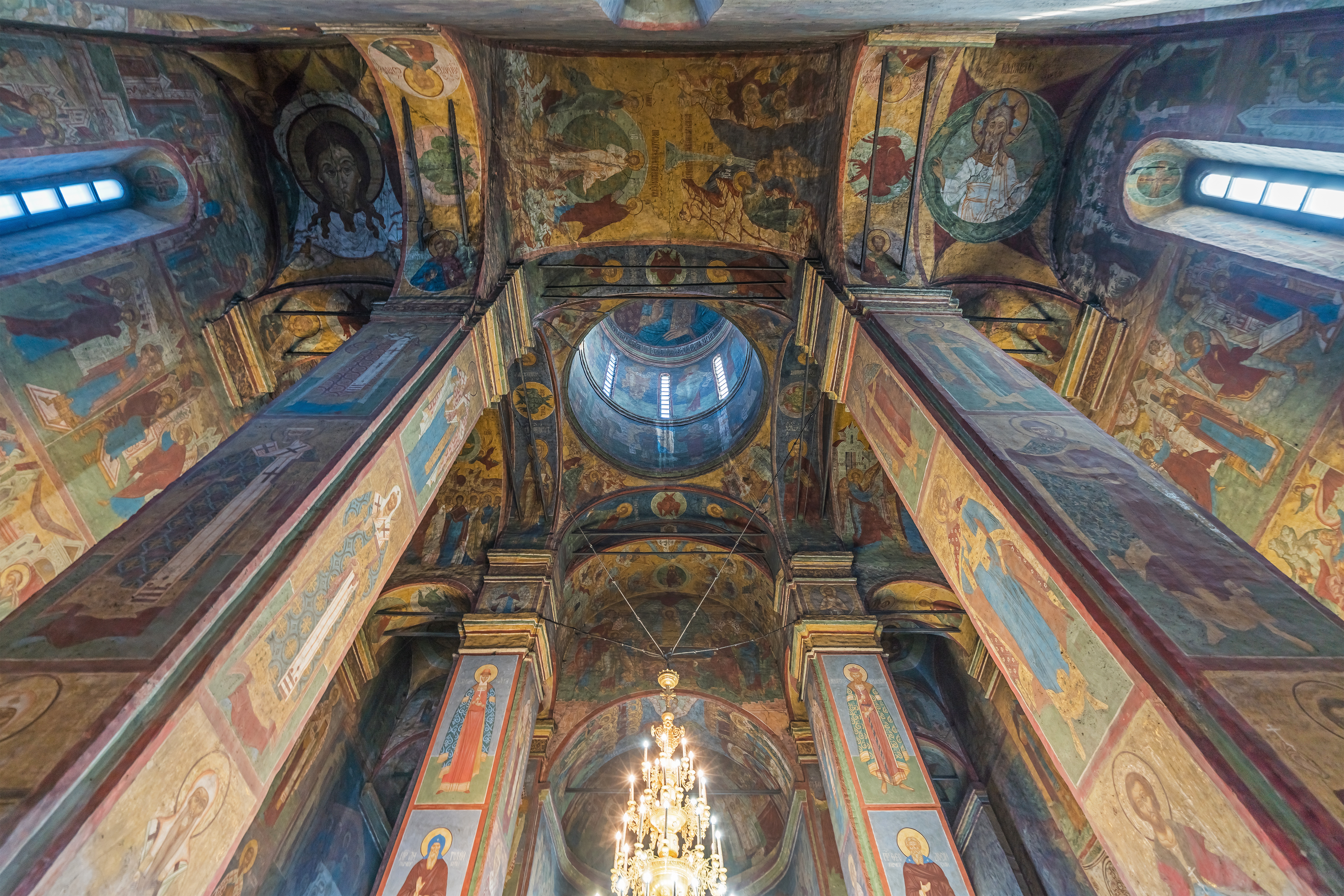 Knyaginin Monastery in Vladimir, Russia